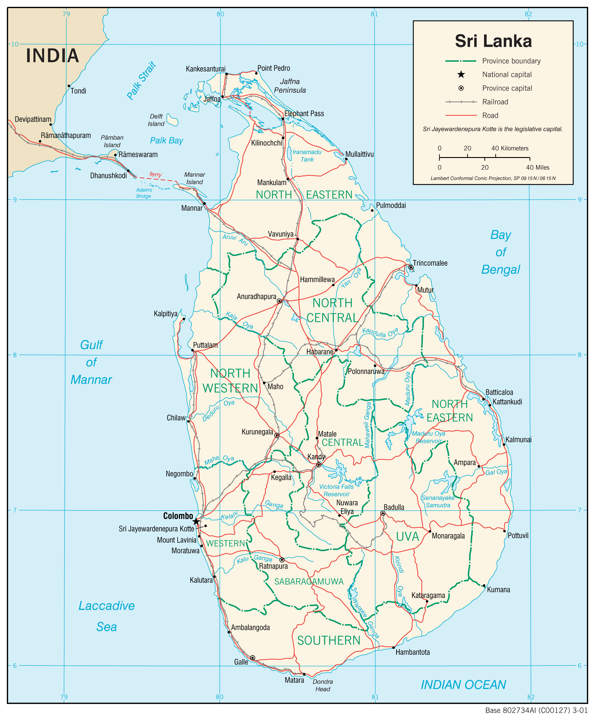 Transport system in Sri Lanka, 2001.